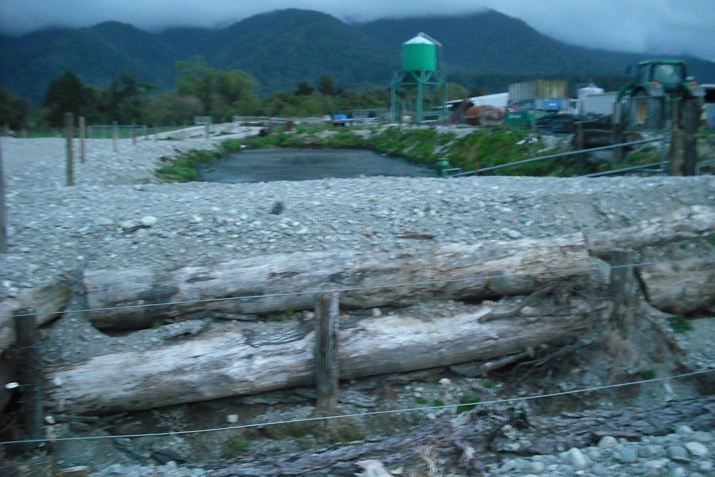 Dairy discharge creating water pollution